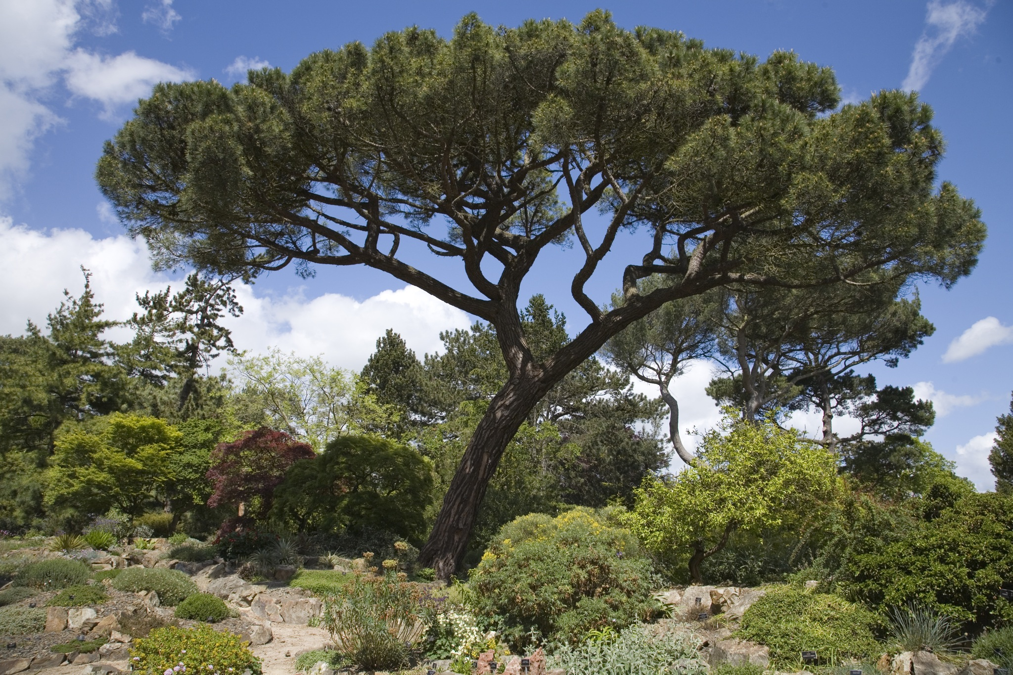 Irish National Botanic Gardens, Glasnevin, Dublin, Ireland.